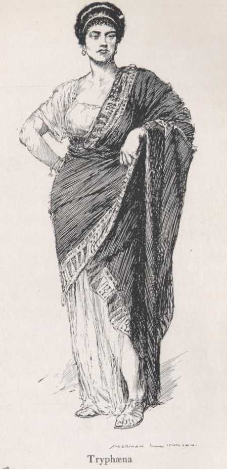 Illustration by Norman Lindsay for Petronius Arbiter's Satyricon